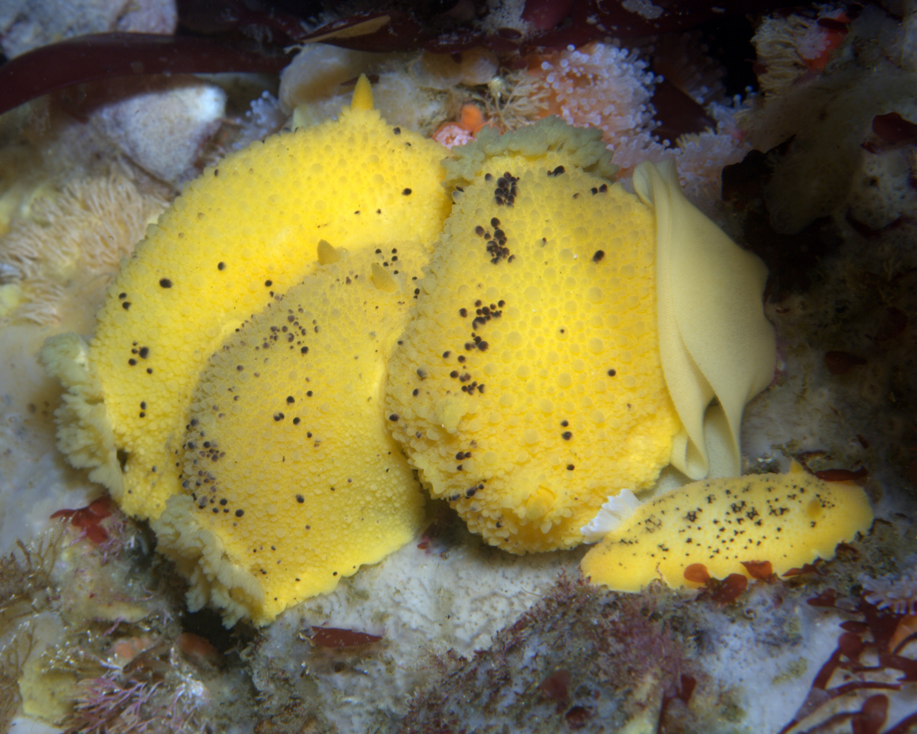 Yellow Dorid Makeout Session (Doris montereyensis)